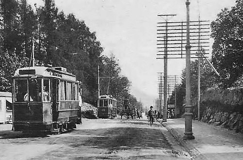 Kummer trams in Helsinki in the early 20th century